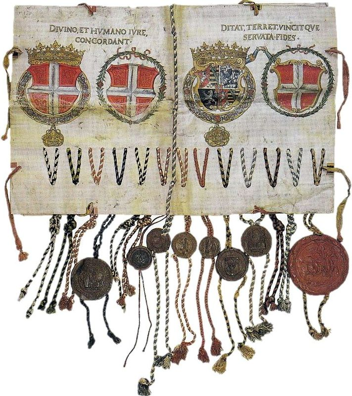 offensiv and defensiv treaty of Duke Emanuel Philibert from Savoy with the catholic swiss cantons in 1577